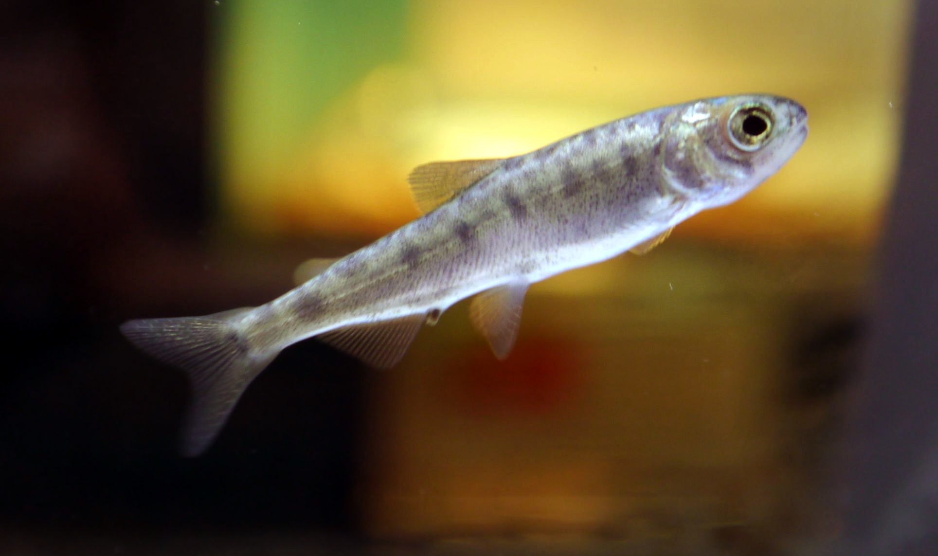 Oncorhynchus kawamurae. One species of Salmon in Japan. Five months child. Fuji Yusui no Sato Aquarium.